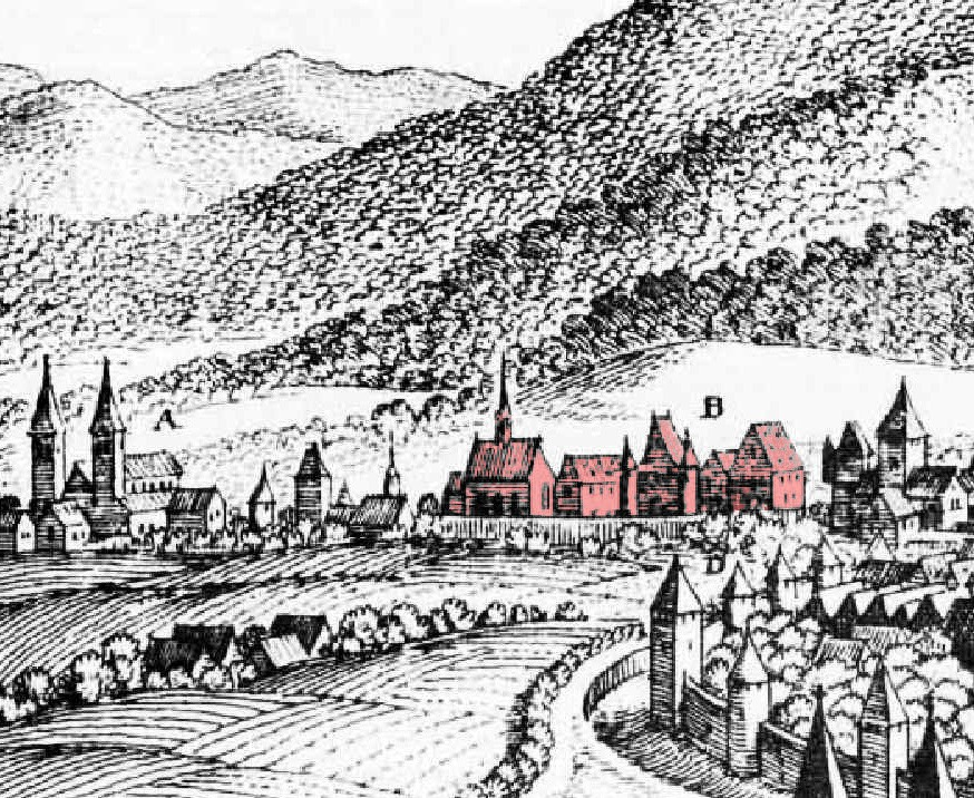 St. Paulin (left) and St. Maximin's Abbey (middle) outside of the German town Trier (defensive walls on the lower right). Part of an engraving from the 1646 book "Topographia Archiepiscopatuum Moguntinensis". The view is probably taken from 1548; see commentary on image:De Merian Mainz Trier Köln 045.jpg. - The coloration is not from the original engraving and was added to highlight the building.